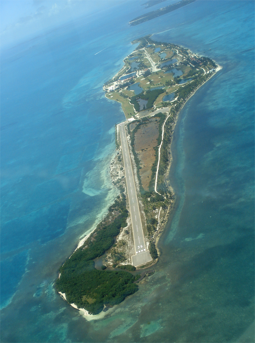 Photo of Caye Chapel, Belize, taken from the air.